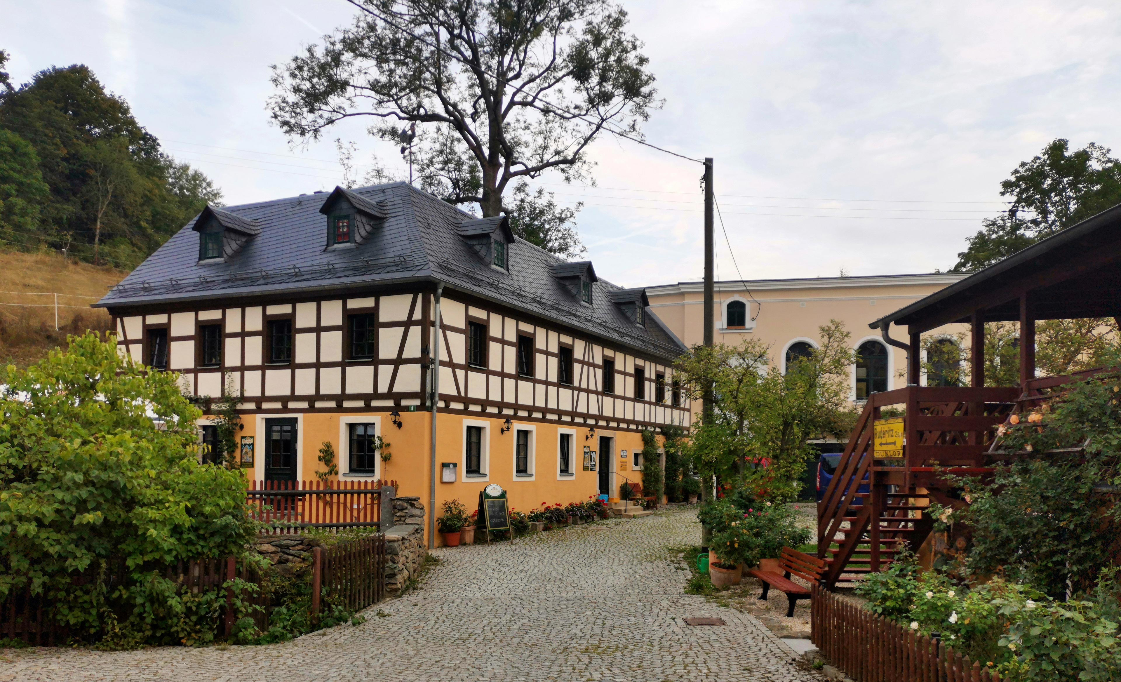 Historic Gasthof Ruderitz